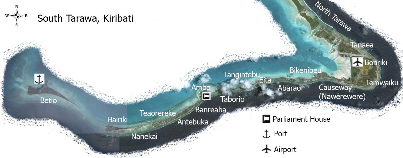 Astronaut photo of South Tarawa, Kiribati, with villages and main landmarks